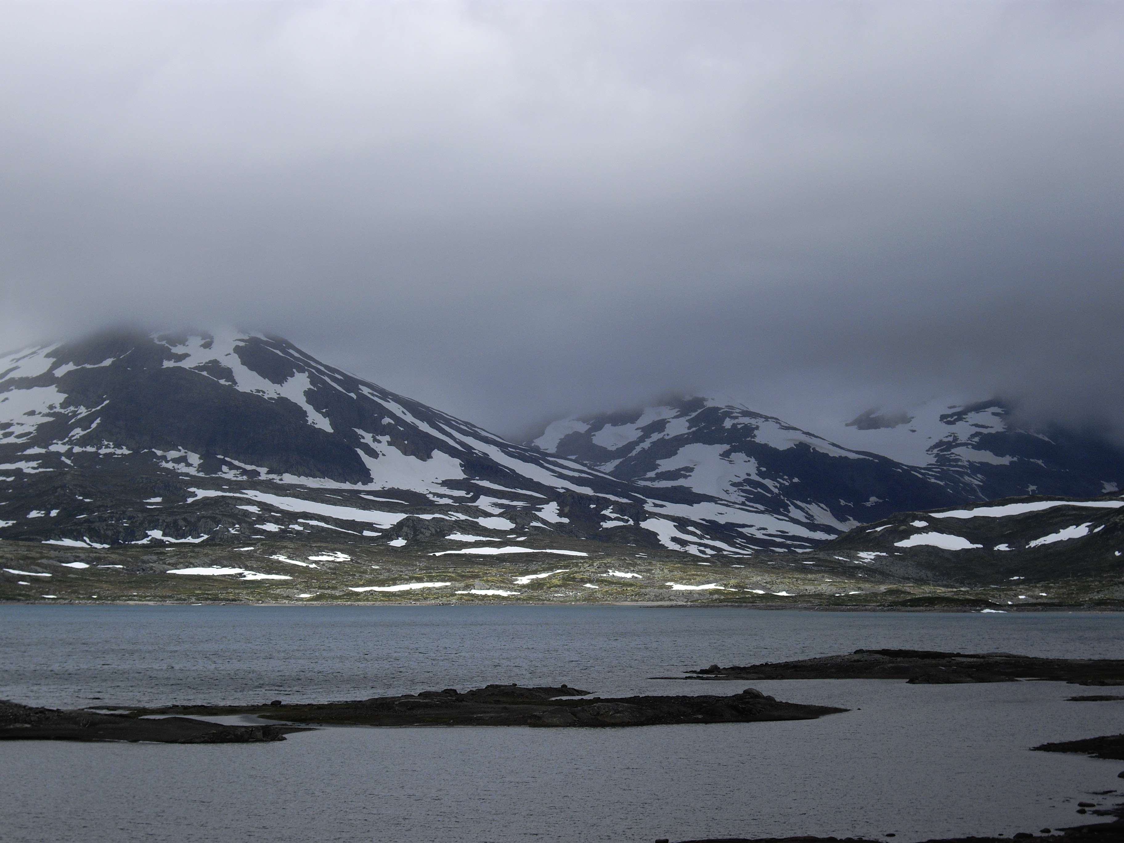 Tyin with a view of Jotunheimen